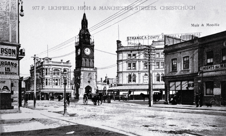 Victoria Clock Tower, photographed from the intersection of Manchester Street and Bedford Row, looking in a south-west direction. High Street runs on a 45 degree angle to Manchester Street, and Lichfield Street is meeting Manchester Street at a right angle.